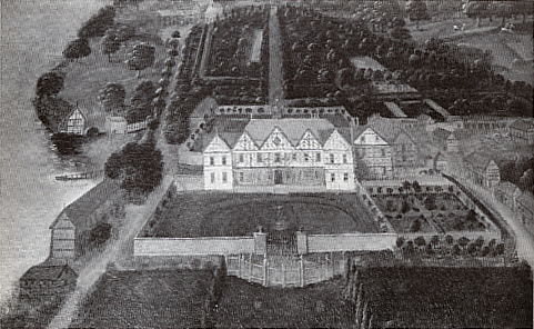 Detail from oil painting of Combermere Abbey (c. 1730)